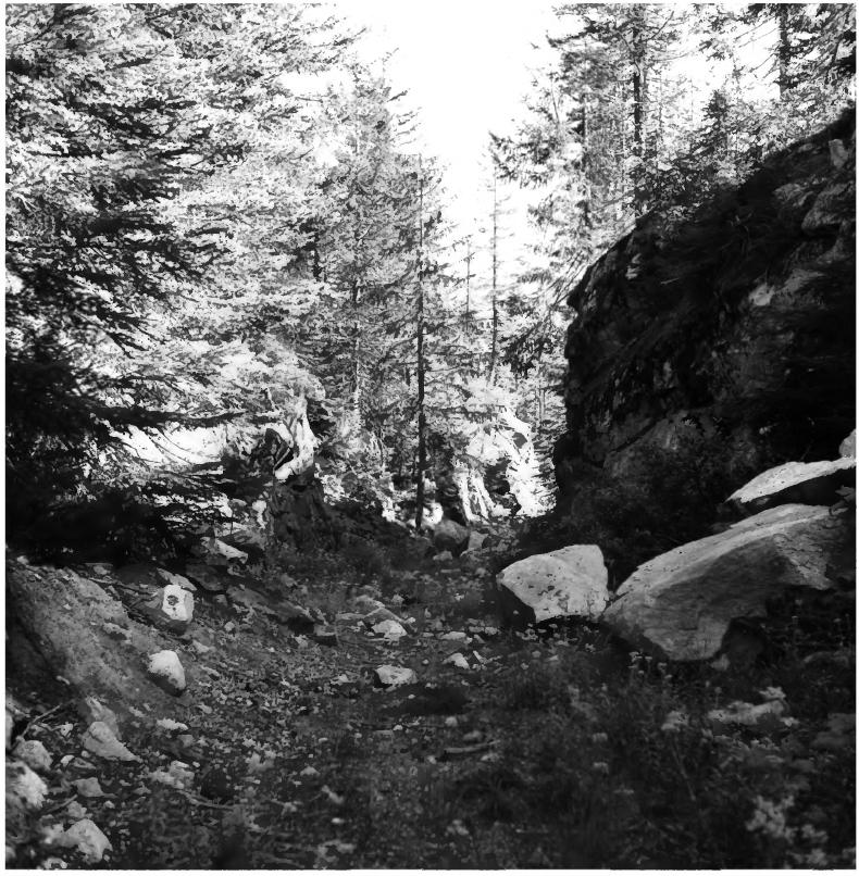 Stephens Pass switchback for railroad route, Kings County, Washington.